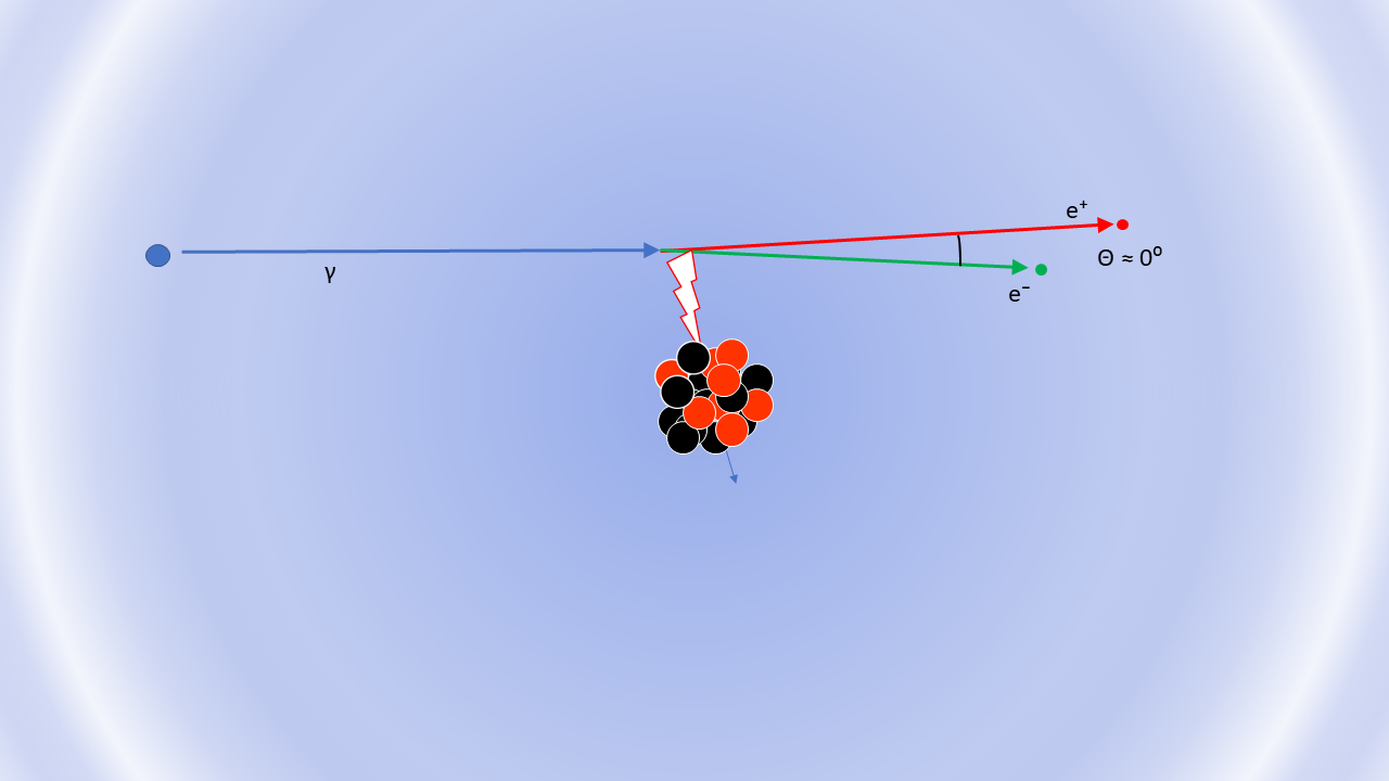 Pair production of electron positron in field of nucleus